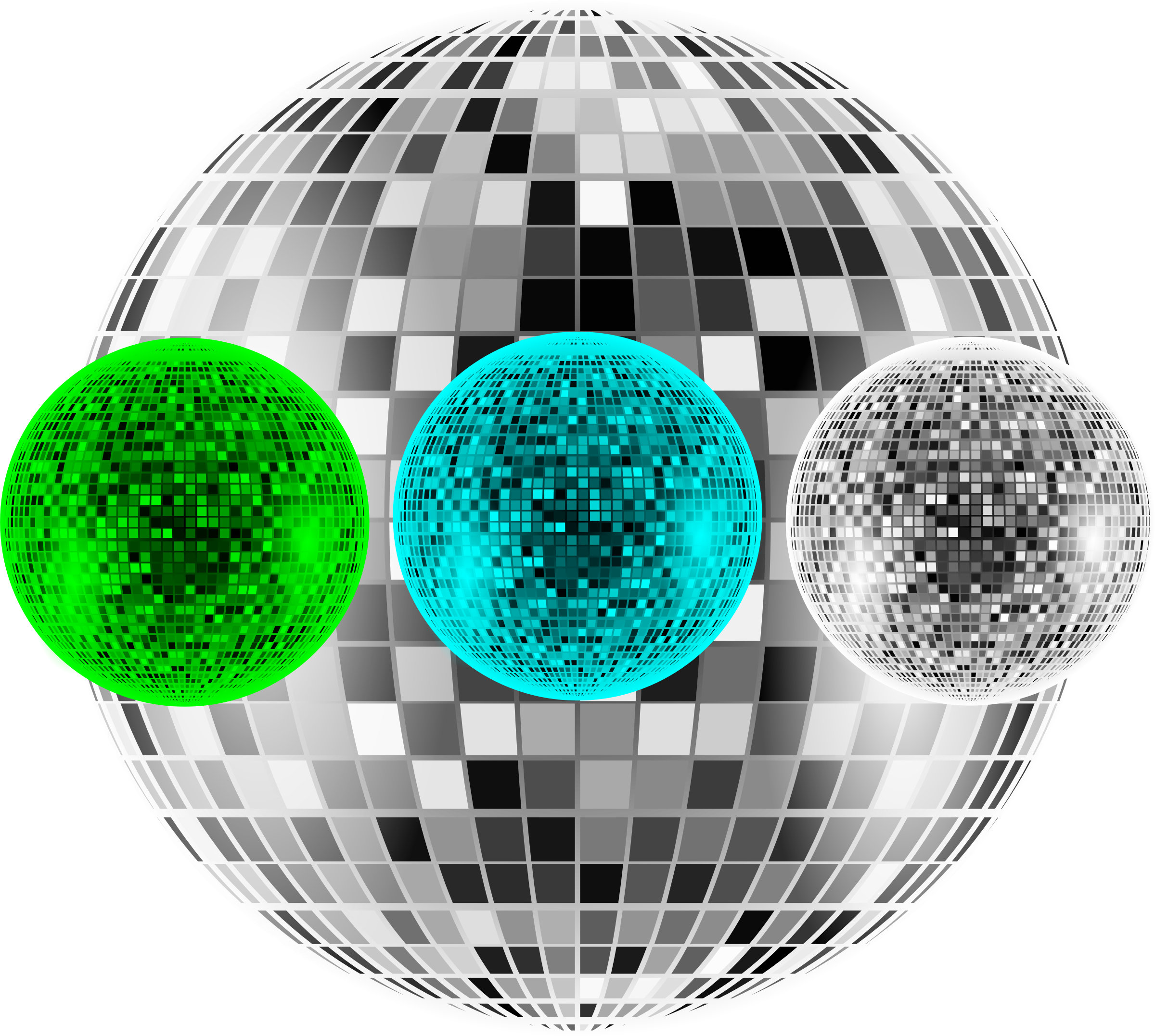 disco balls